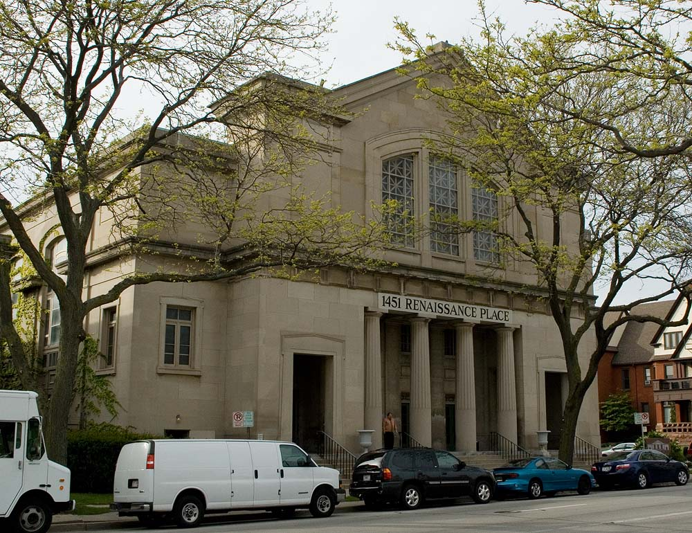 First Church of Christ Scientist, Milwaukee, Wisconsin. National Registered Historic Place.